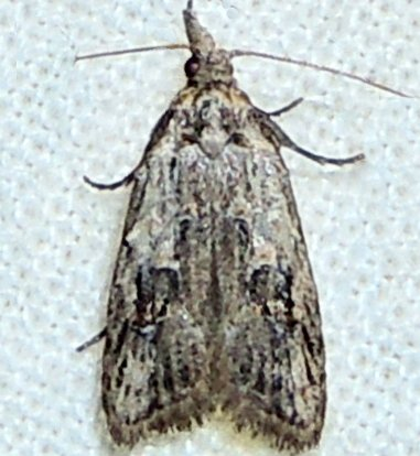 9/7/13 Franklin County Photo and ID thanks to Jack Foreman